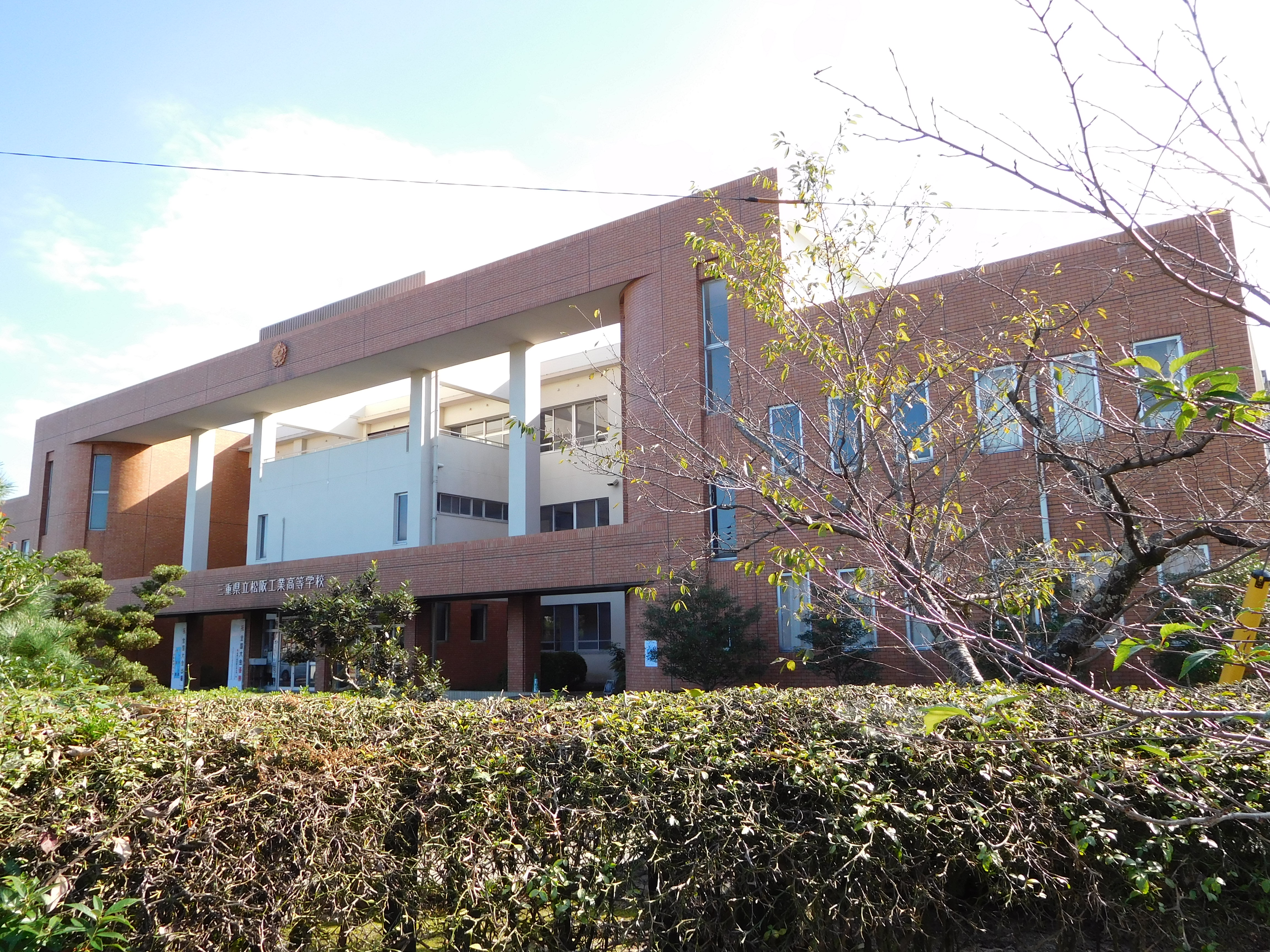 This is the Mie prefectural Matsusaka Technical High School in Matsusaka, Mie, Japan.